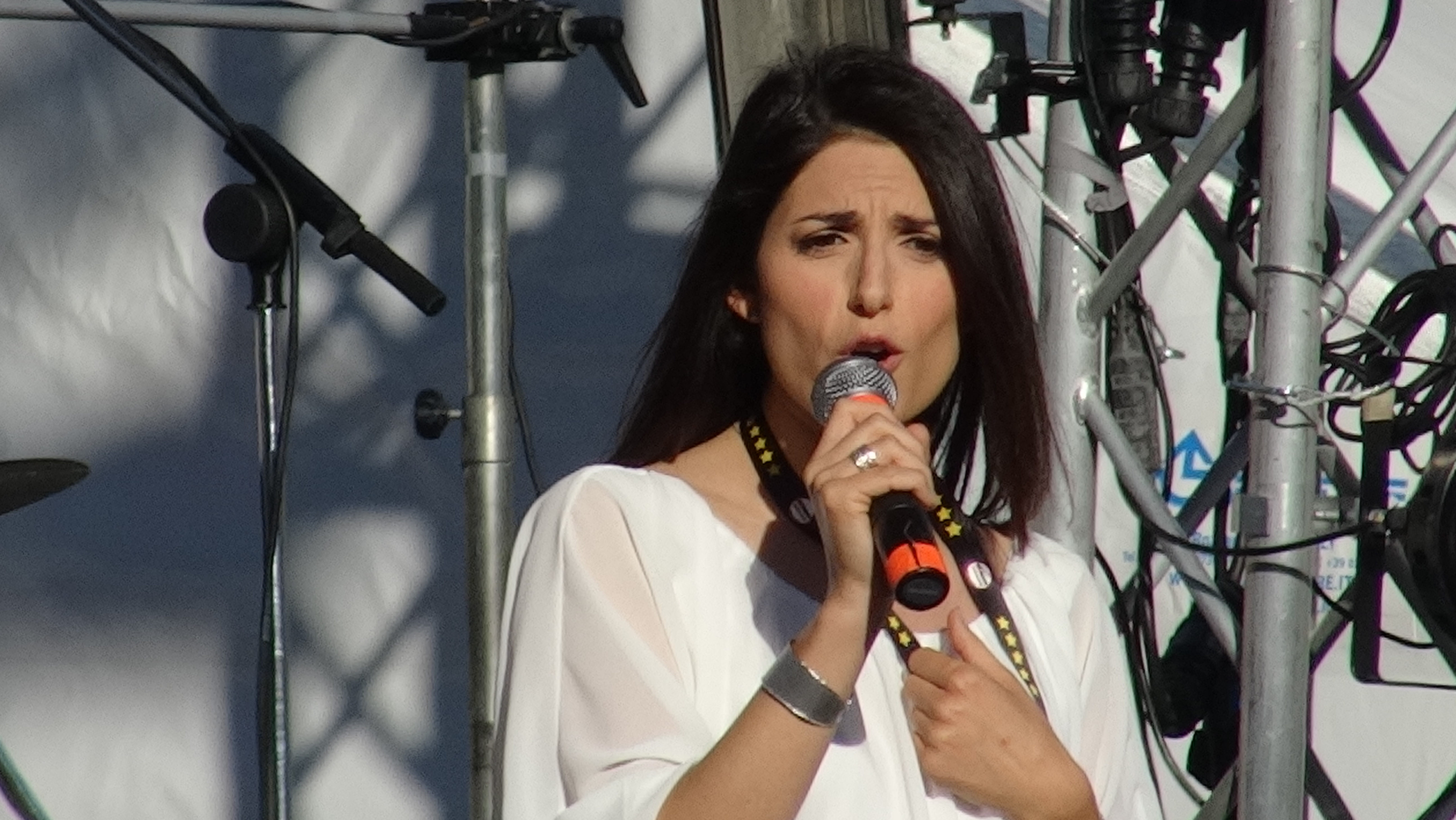 Virginia Raggi